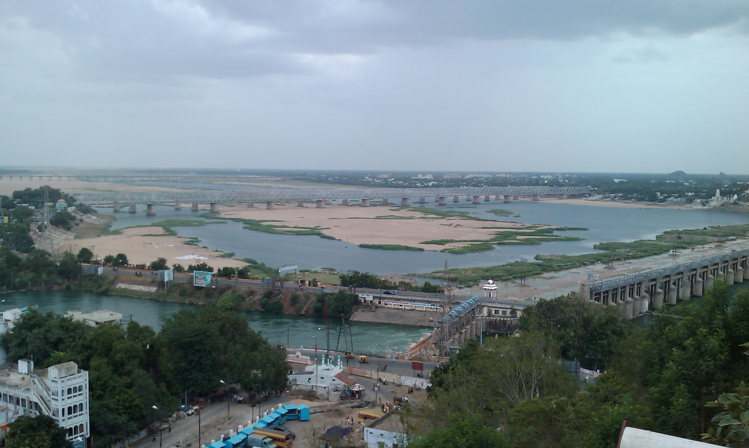 View from Durga Temples